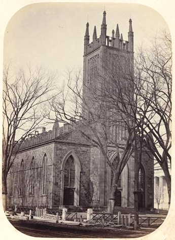 An early photograph of Trinity on the Green, New Haven, Connecticut, USA,taken circa 1865, before the wooden tower and battlements were replaced in 1870 and before the state house, seen in the background, was torn down in 1889. Used at Trinity Church on the Green